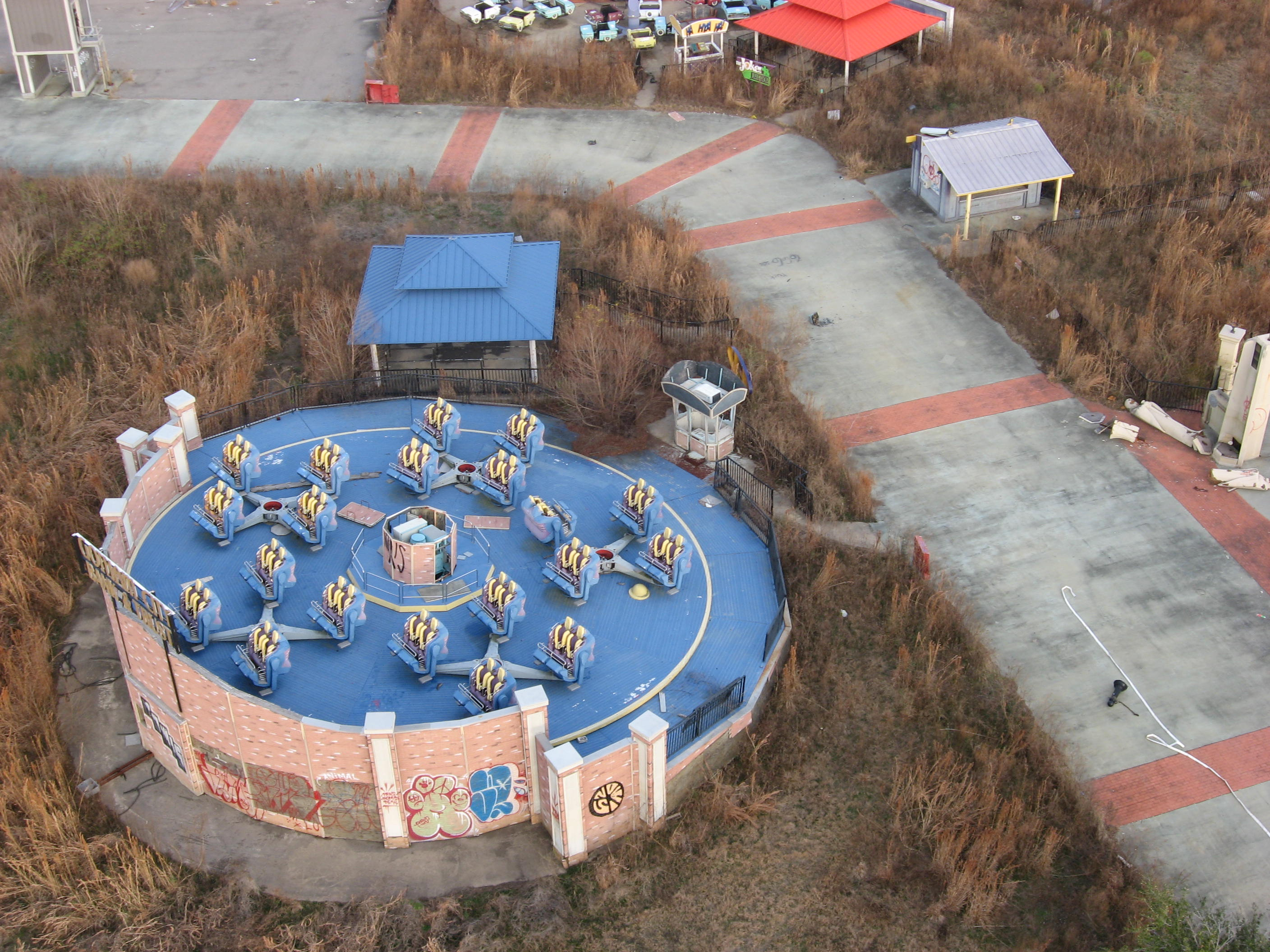 Six Flags abandoned amusement park in Eastern New Orleans